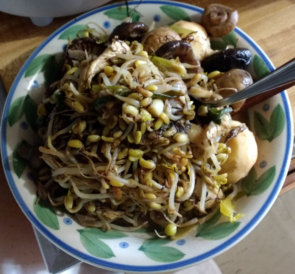 Chinese-style preparation of homegrown mung bean sprouts